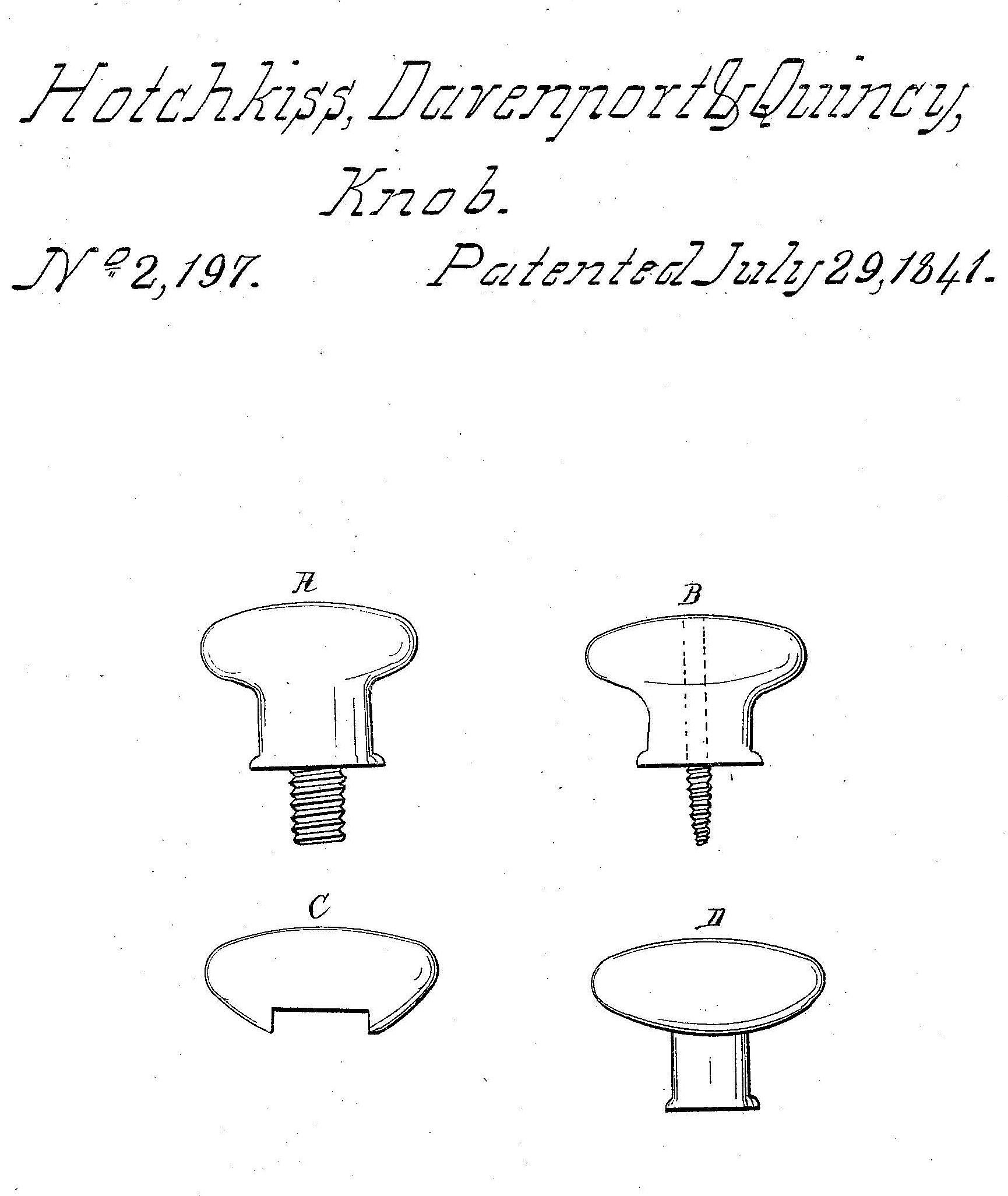 This is the drawing from US Pat No 2197 that was involved in the case Hotchkiss v. Greenwood Other information This is the drawing for a US patent